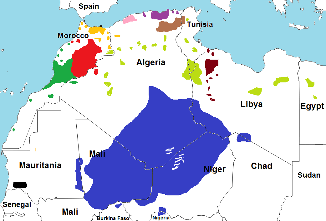 Map of the Berber language spoken in North Africa